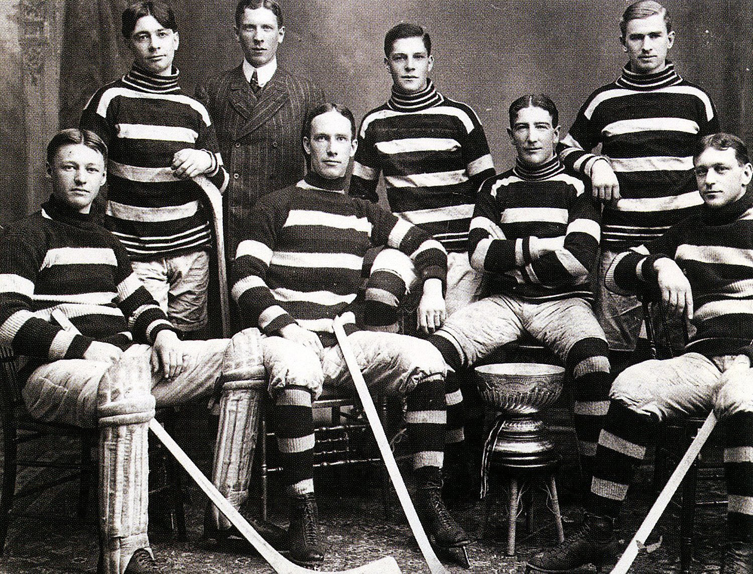 The Ottawa Hockey Club, nicknamed the "Silver Seven", were the Stanley Cup champions in 1905.Standing, left to right: Rat Westwick, Mac MacGilton, Billy Gilmour, Frank McGeeSitting, left to right: Dave Finnie, Harvey Pulford, Alf Smith, Arthur A. C. Moore